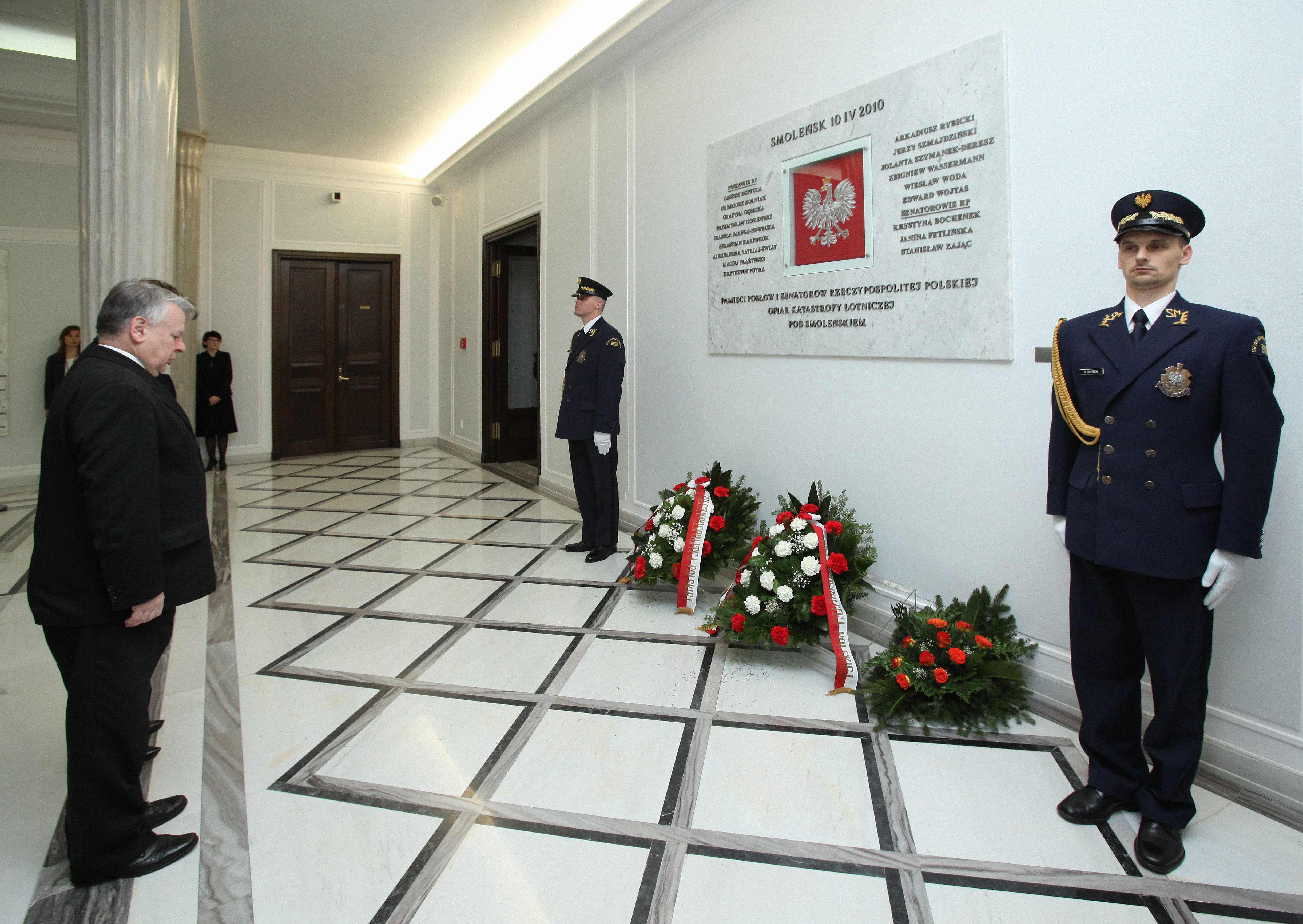 Honouring victims of 2010 Polish Air Force Tu-154 crash near Smolensk in the Polish Sejm